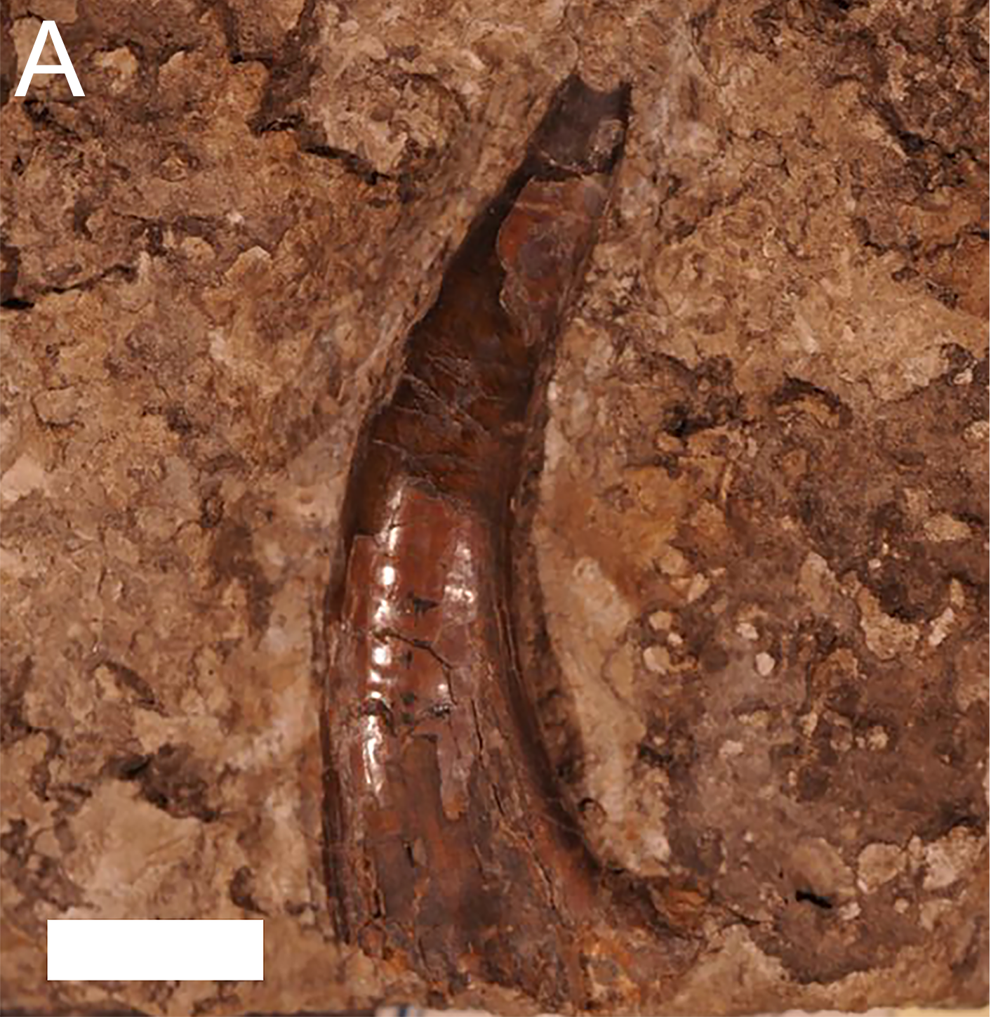 An examination of the Devonian fishes of Michigan